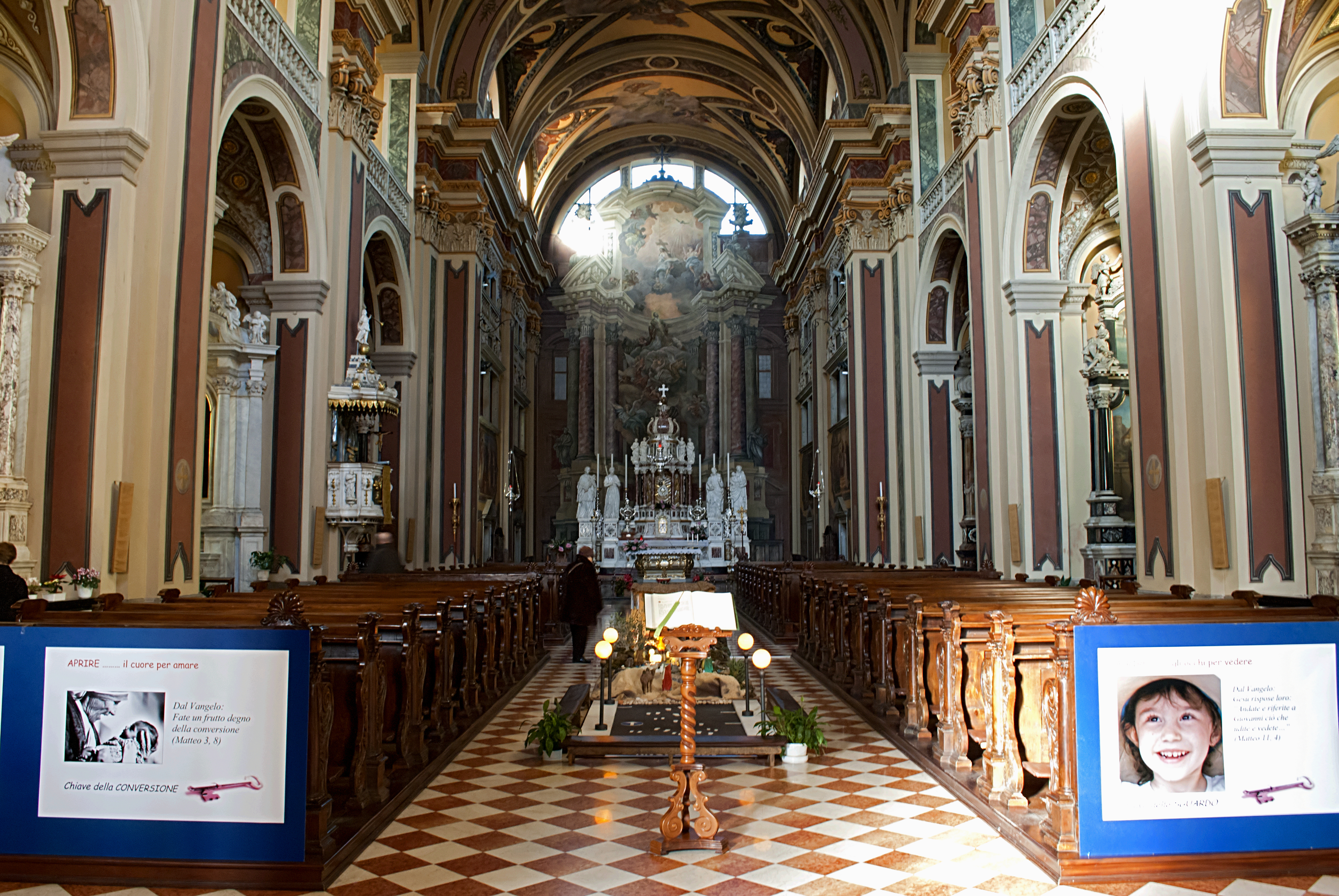 Church of Sant Ignatius in Gorizia, Italy; view of the interior.